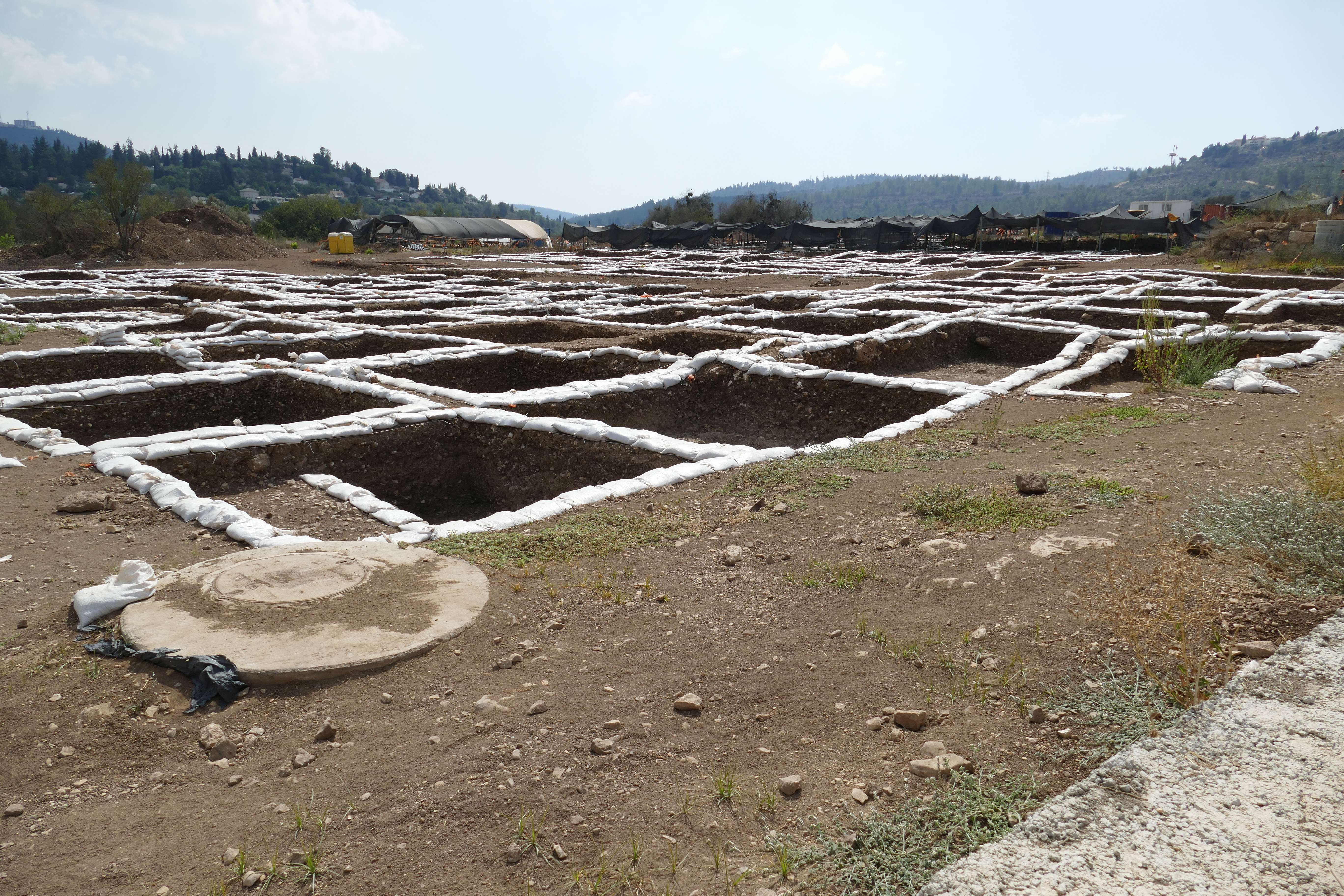 Archaeological excavations near Motza, Israel.